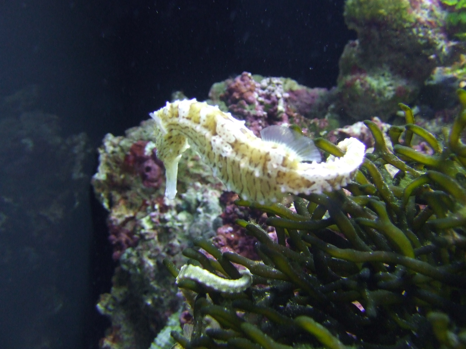 Taken at the Waikiki Aquarium, through the tank glass.